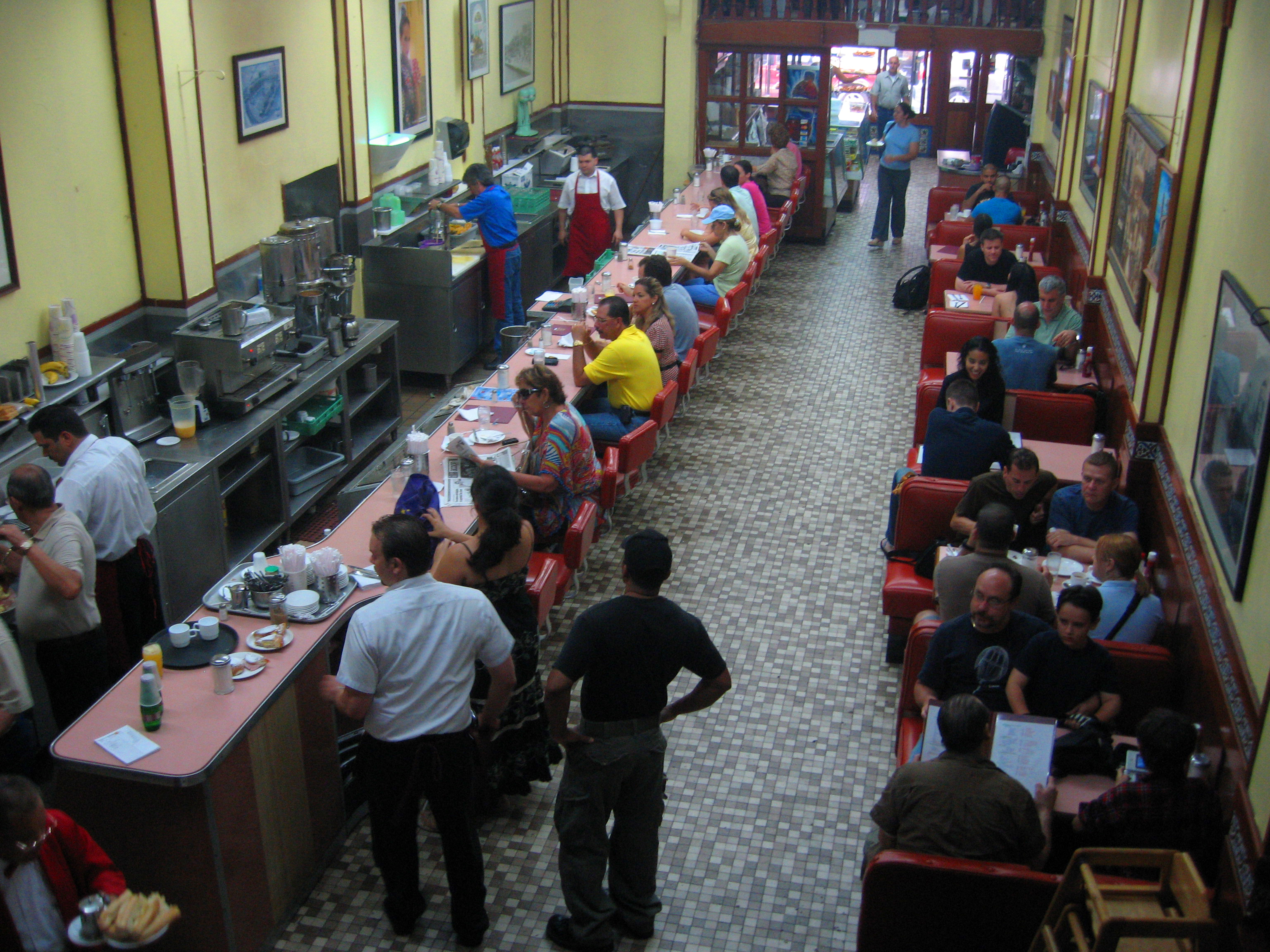 La Bombonera in San Juan, Puerto Rico, founded over 100 years ago. Good cheap food!